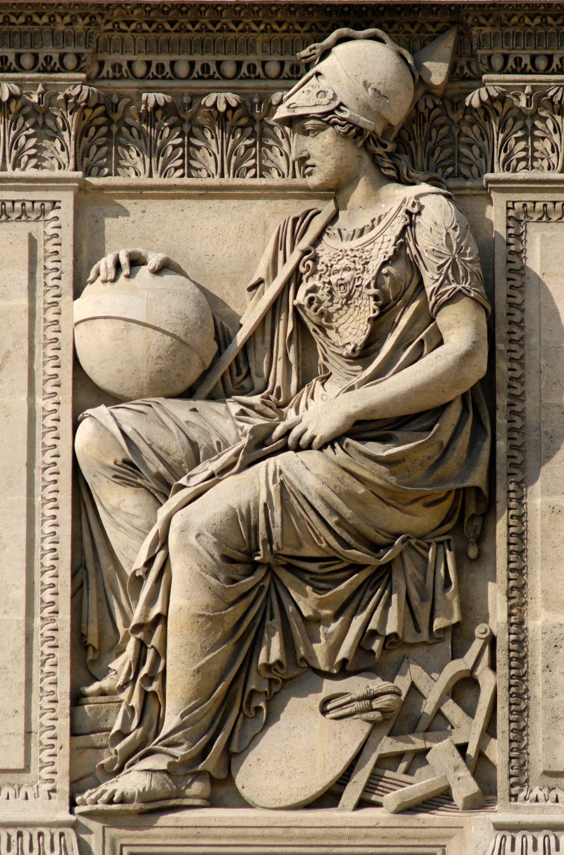 Athena by Philippe-Laurent Roland, 1806. Relief on the right of the central window, droite part of the West façade of the cour Carrée in the Louvre palace, Paris.